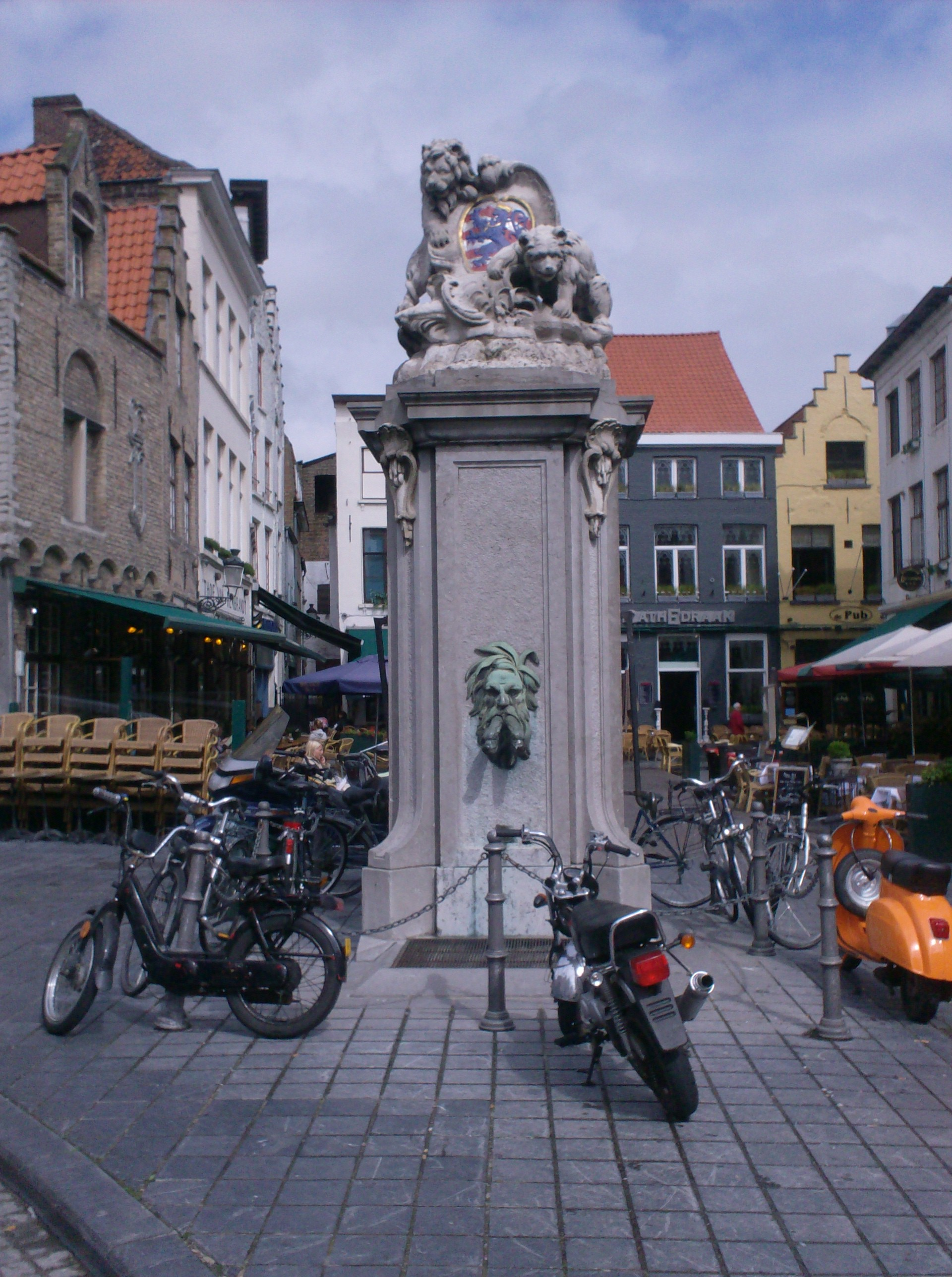 Monumental pump (1761) on the "Eiermarkt" (Egg Market) in Bruges (Belgium) by Pieter Pepers (1730-1785)